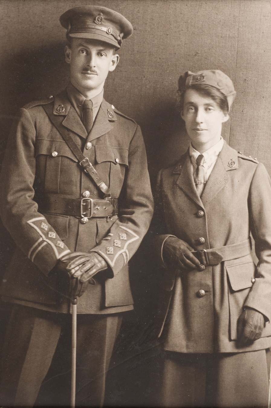 Photograph of Leitenant (Dr) Vera Scantlebury (1889-1946) and her brother Captain (Dr) George Clifford Scantlebury (1890-1976) dressed in WWI military uniforms. Commencing 1917 Vera was enlisted in the Royal Army Medical Corps as assistant surgeon at Endell Street Military Hospital, England.